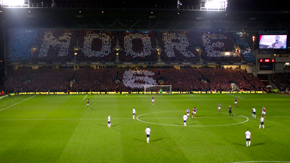 West Ham fans display Moore and 6 as a tribute to Bobby Moore twenty years after his death, in the stand which bears his name, at The Boleyn Ground, London